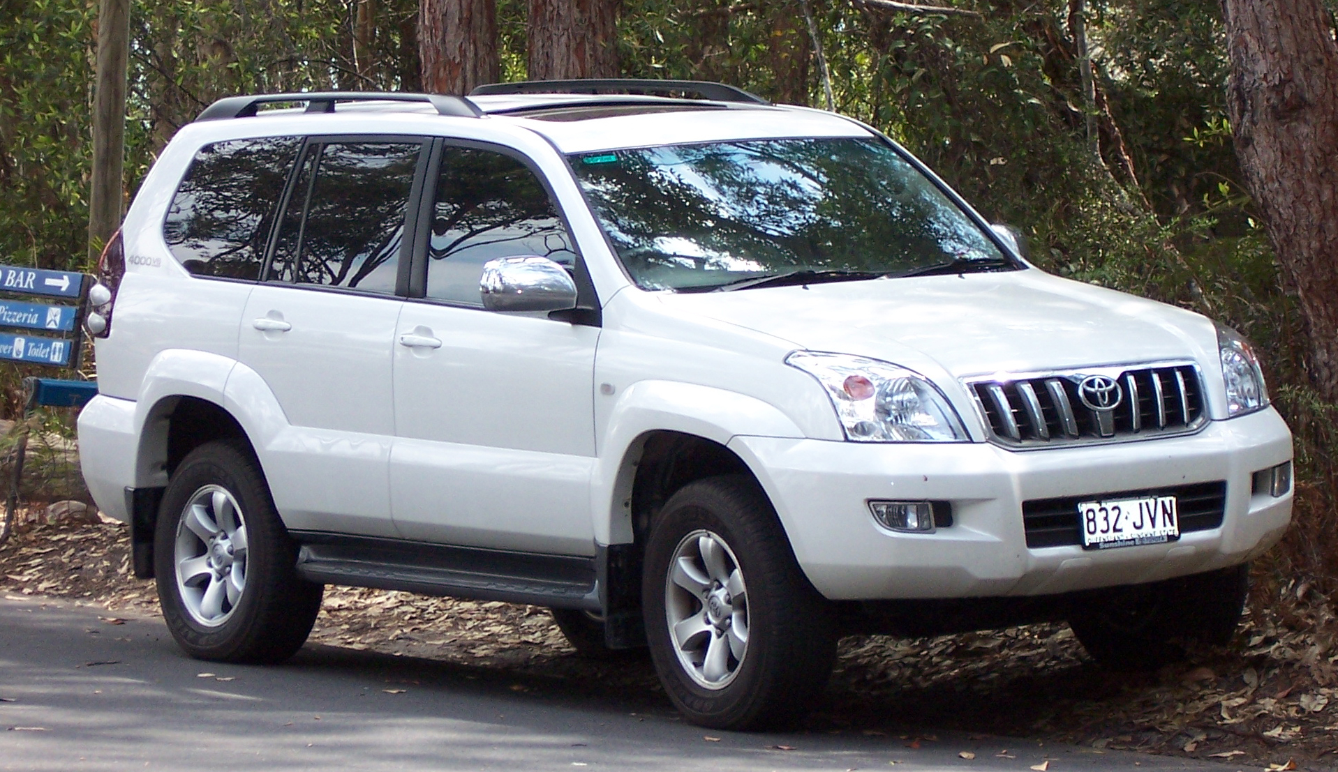 2003–2007 Toyota Land Cruiser Prado (GRJ120R) GXL. Photographed on Fraser Island, Queensland, Australia.